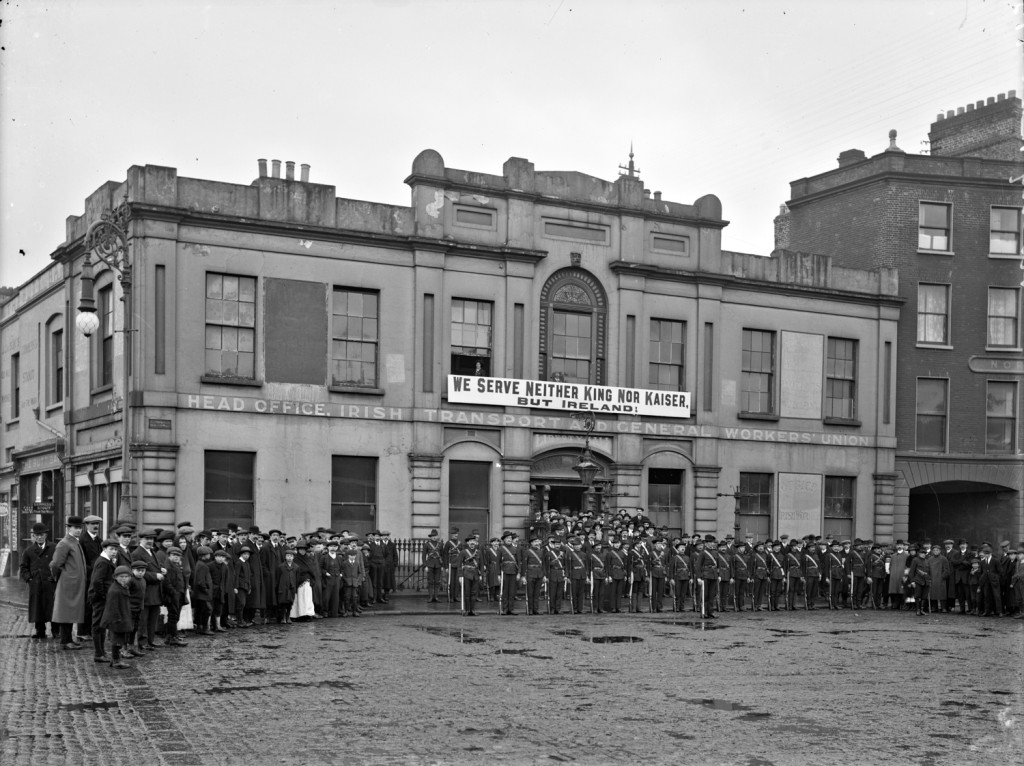 Irish Citizen Army group outside Liberty Hall. Group are lined up outside ITGWU HQ under a banner proclaiming "We serve neither King nor Kaiser, but Ireland!". Photo taken in early years of WWI. National Library of Ireland reference Ke 198